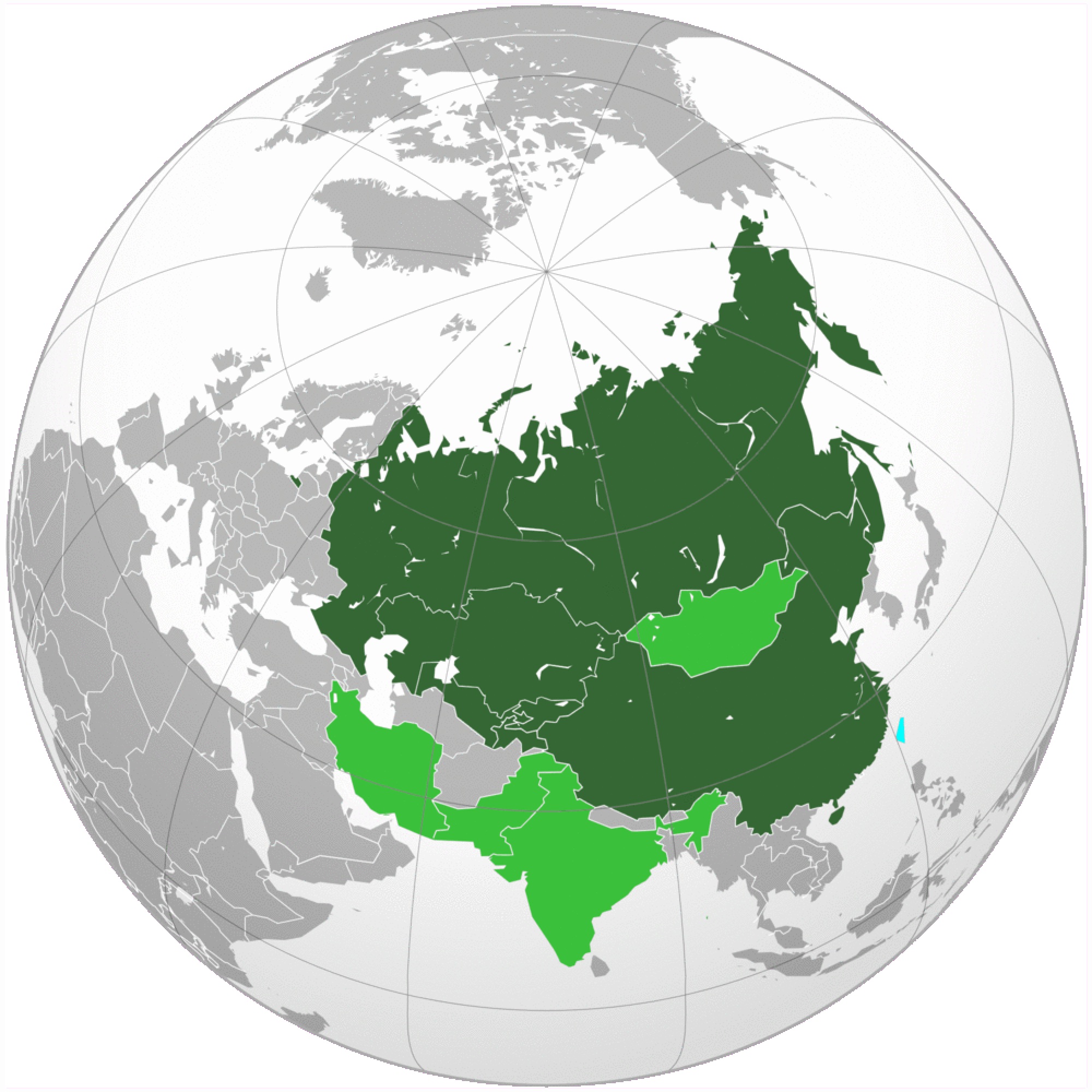 Map of the Shanghai Cooperation Organization. Blue: Member states. Green: Observer status. Cyan: Taiwan.